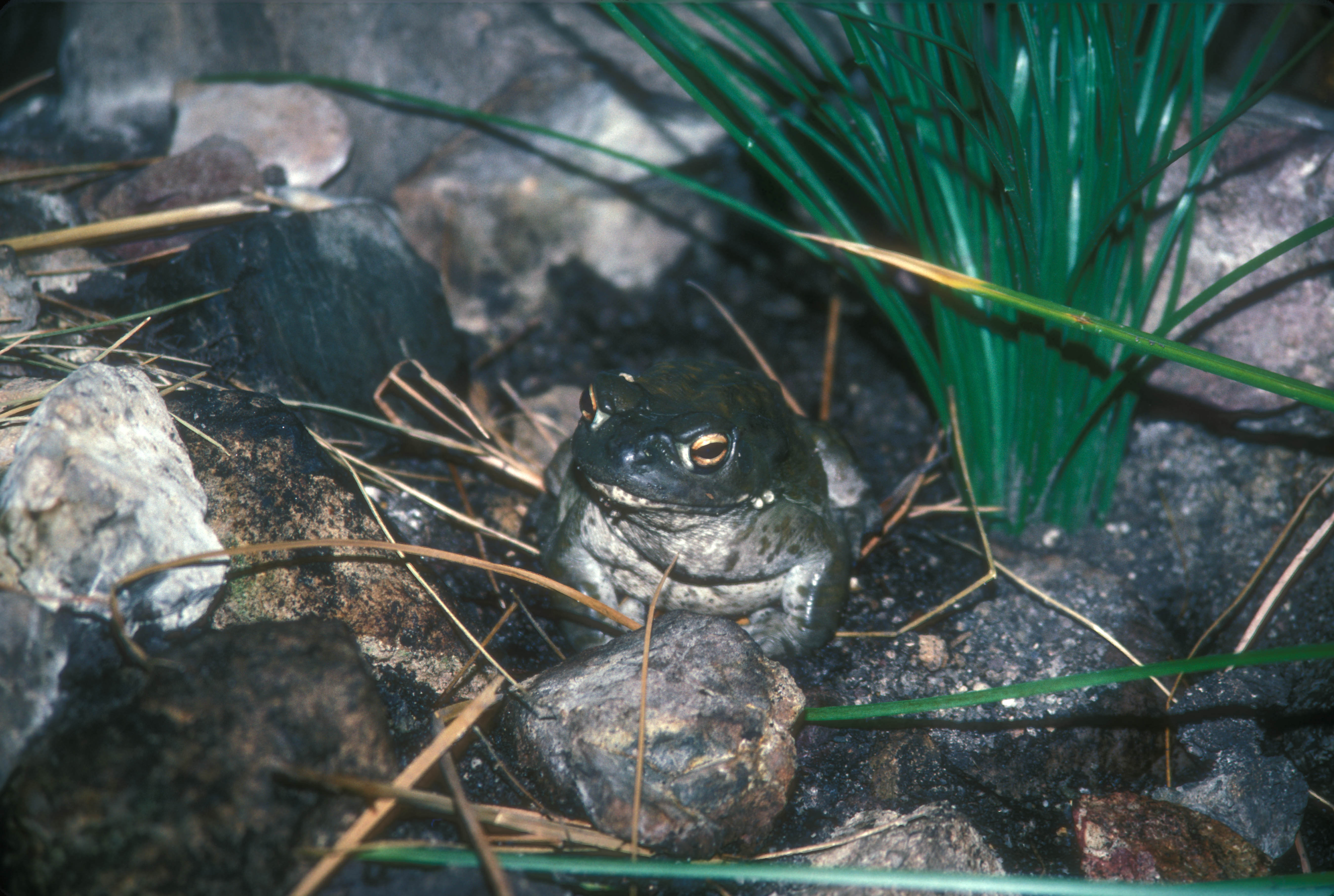 SONORAN DESERT TOAD